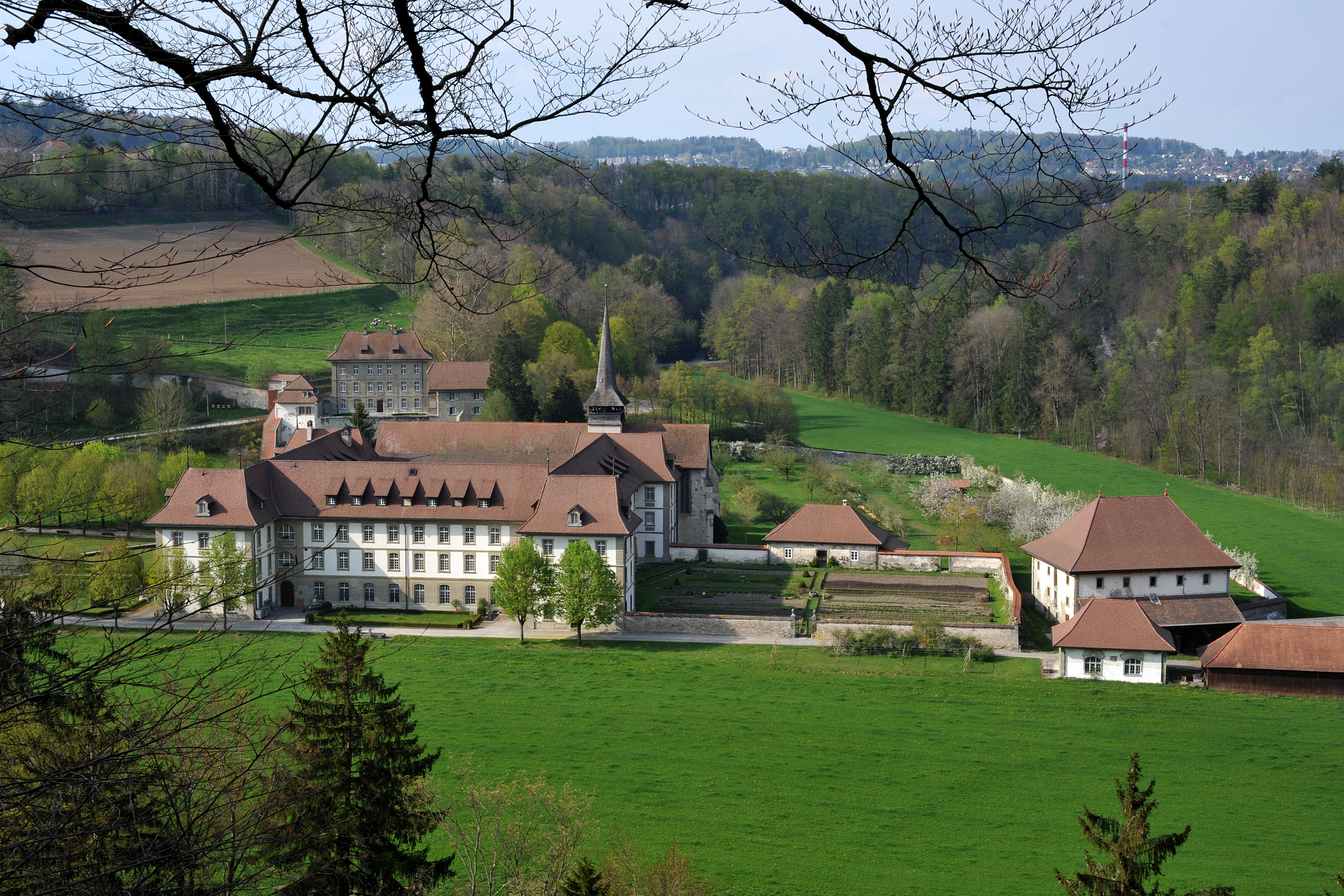 Abbey Altenryf in Hauterive; Fribourg, Switzerland.